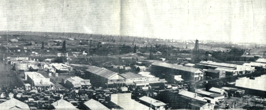 A 1922 photo of the oil boom town Whizbang, Oklahoma, officially known as Denoya